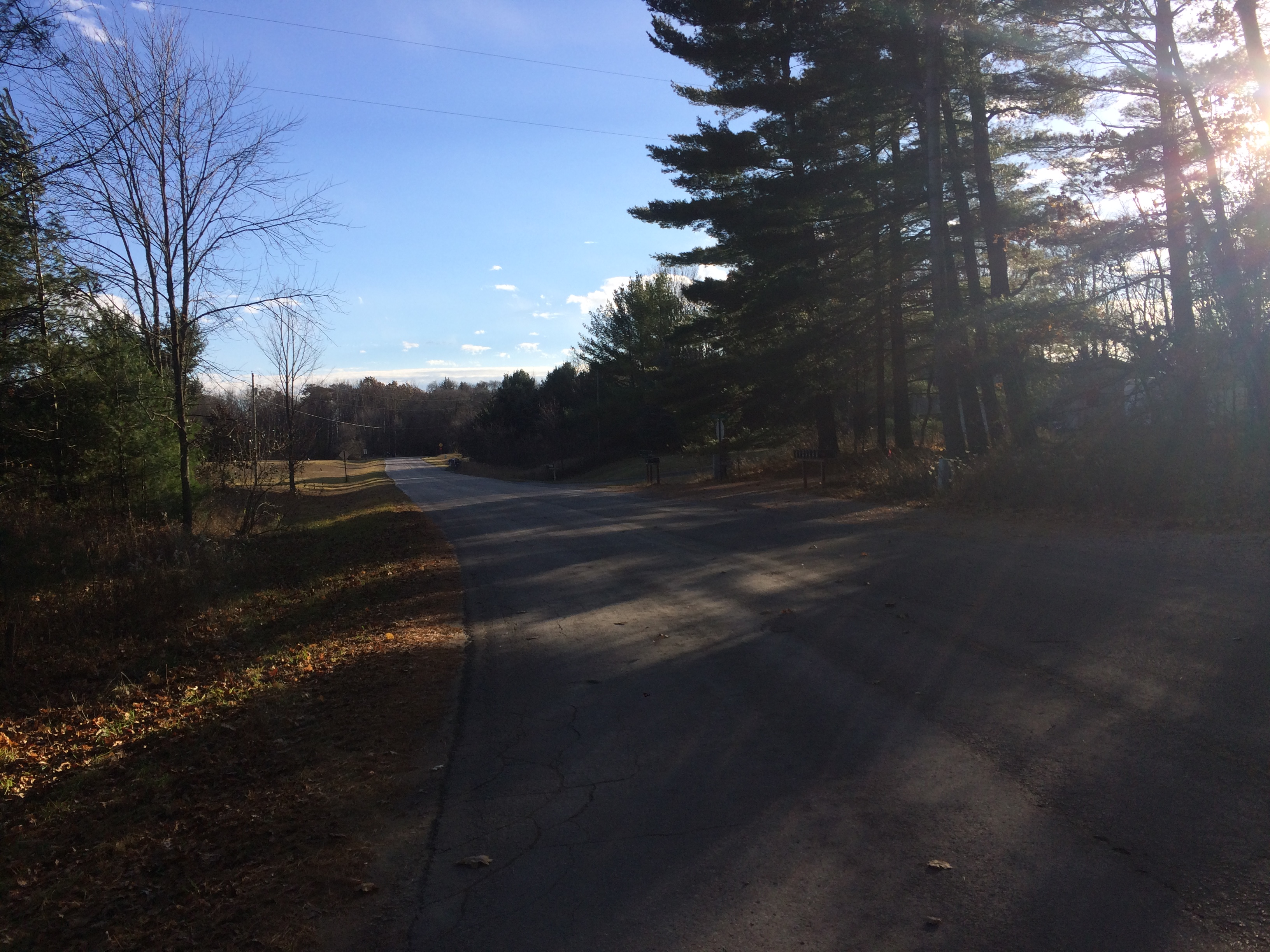 I took this picture myself on my phone, it just shows the entrance to the town from Culver Road